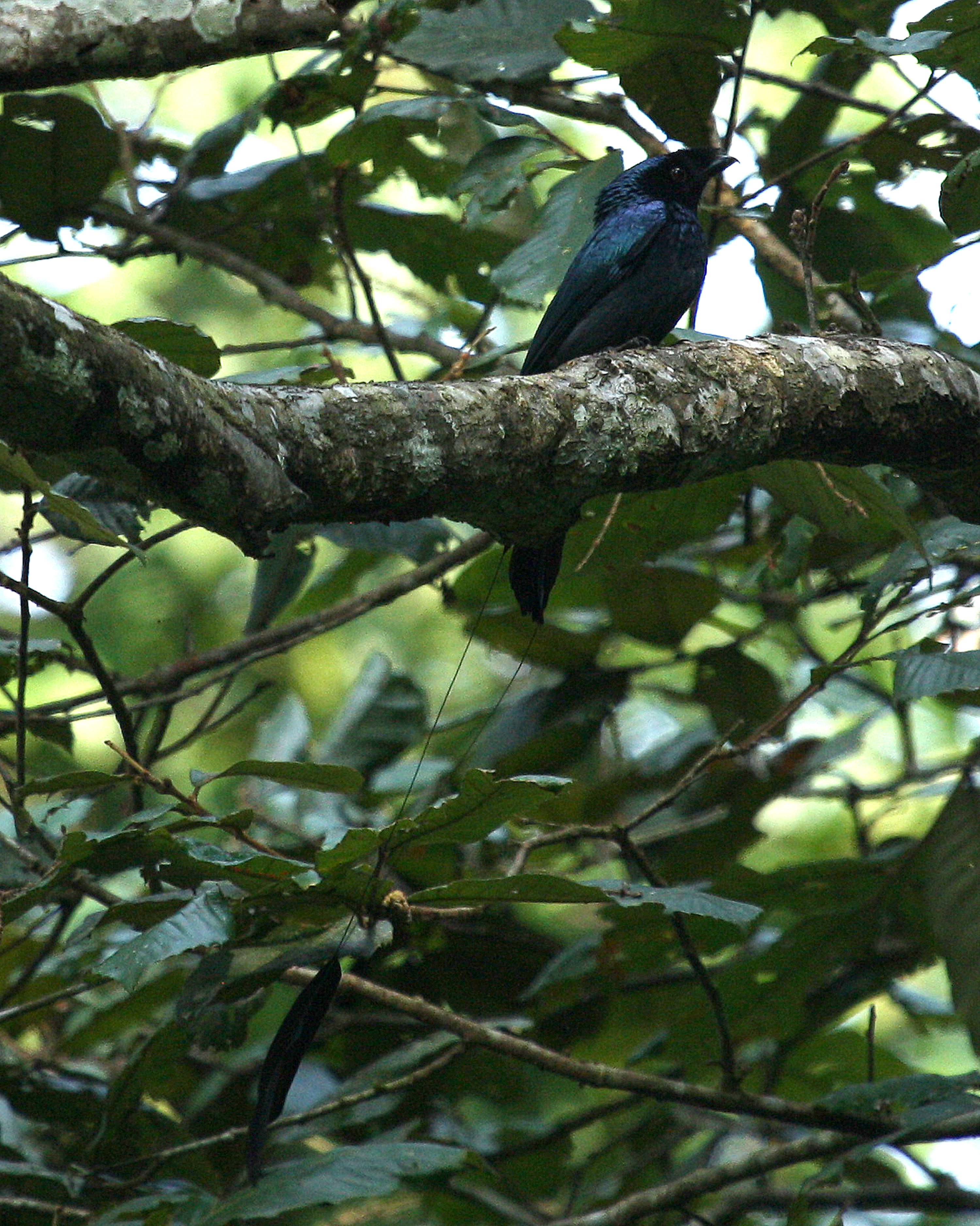 Photo by Dr. Raju Kasambe. Taken in Kaziranga National park, Assam, India. Lesser Racket-tailed Drongo Dicrurus remifer